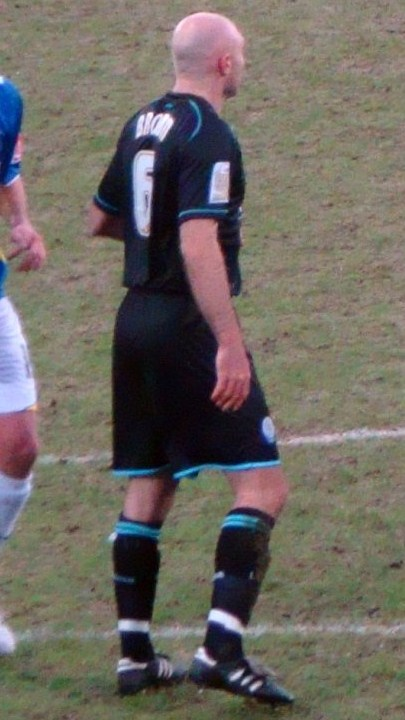 Cardiff V Leicester, FA Cup 4th Rd, Cardiff City Stadium, Cardiff, Wales. Image cropped from original at Flickr.